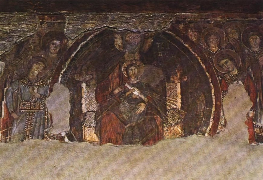 Holy Trinity ( Paternity) - fresco (XIII cent) in Grottaferrata